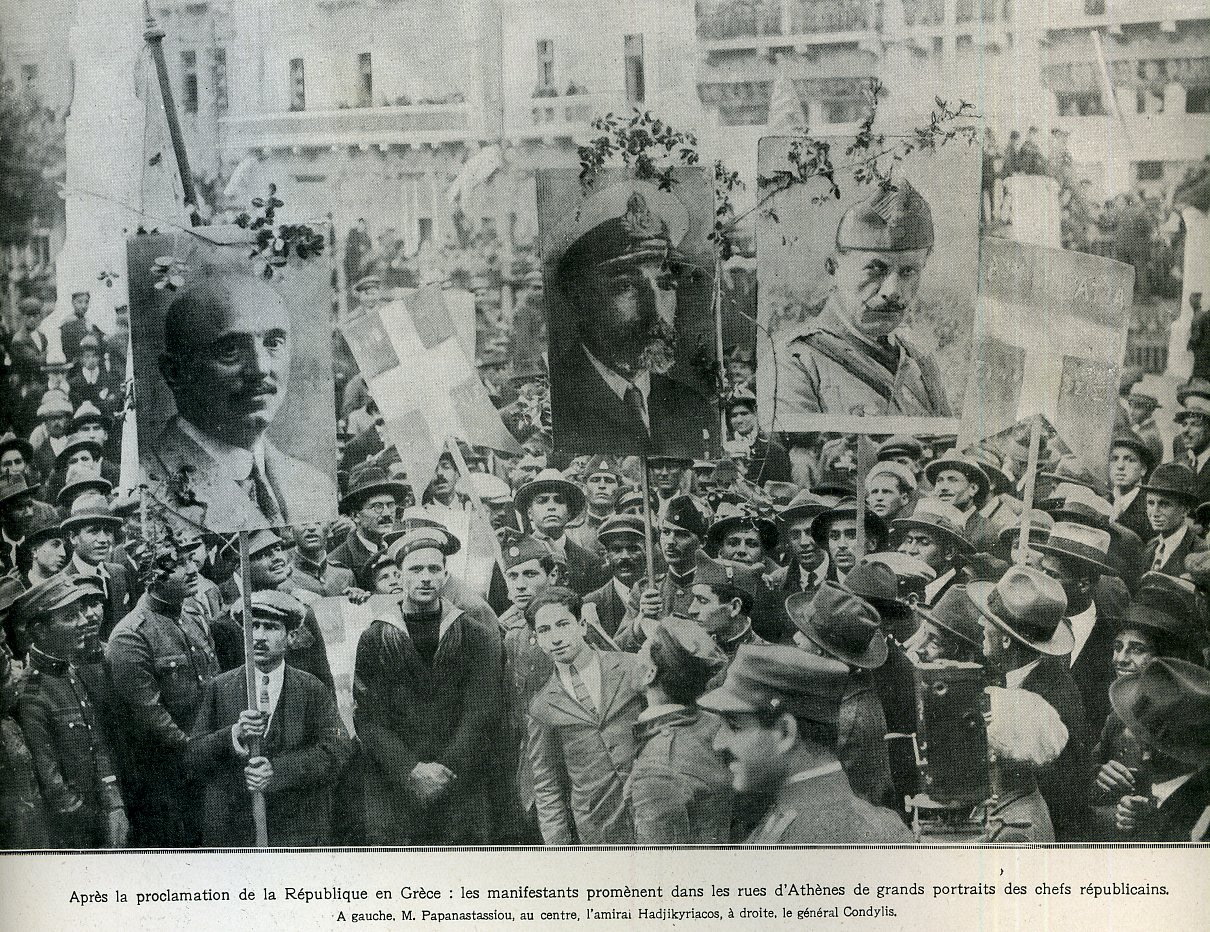 Proclamation of the Second Hellenic Republic in Greece. Crowds holding placards depicting Prime Minister Alexandros Papanastasiou and the Republican military leaders, Admiral Alexandros Hatzikyriakos and Colonel Georgios Kondylis.